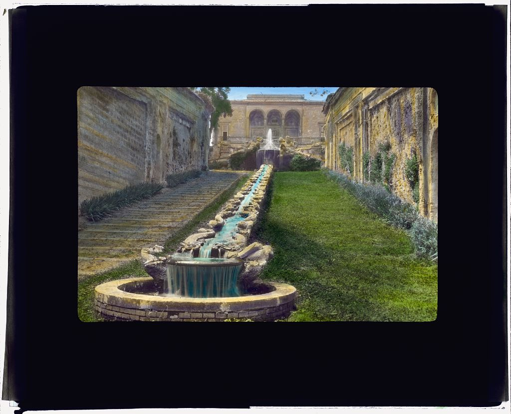 Johnston, Frances Benjamin,, 1864-1952,, photographer. [Villa Farnese, Caprarola, Lazio, Italy. View to casino] [1925 summer] 1 photograph : glass lantern slide, hand-colored ; 3.25 x 4 in. Notes: Site History. House Architecture: Giacomo (Jacopo) Barozzi de Vignola, seventeenth century. Landscape: Giacomo (Jacopo) Barozzi de Vignola, seventeenth century and Pietro Bernini, sculptor. Associated Name: Alessandro II Farnese. Today: Public site. Also known as Villa Caprarola. On slide (printed): "Edward Van Altena" and "71-79 W. 45th St., N.Y.C." (slide manufacturer). Slide for lecturing on "Old World Gardens." Title, date, and subject information provided by Sam Watters, 2011. Forms part of: Garden and historic house lecture series in the Frances Benjamin Johnston Collection (Library of Congress). Published in: Gardens for a Beautiful America / Sam Watters. New York : Acanthus Press, 2012. Figure 26a. Repository: Library of Congress, Prints and Photographs Division, Washington, D.C. 20540 USA, Higher resolution image is available (Persistent URL): Call Number: LC-J717-X104- 39